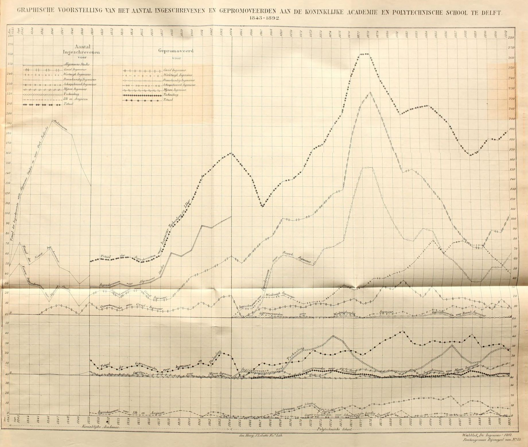 Koninklijke Academie en Polytechnische School te Delft, studentenaantallen 1843-1892